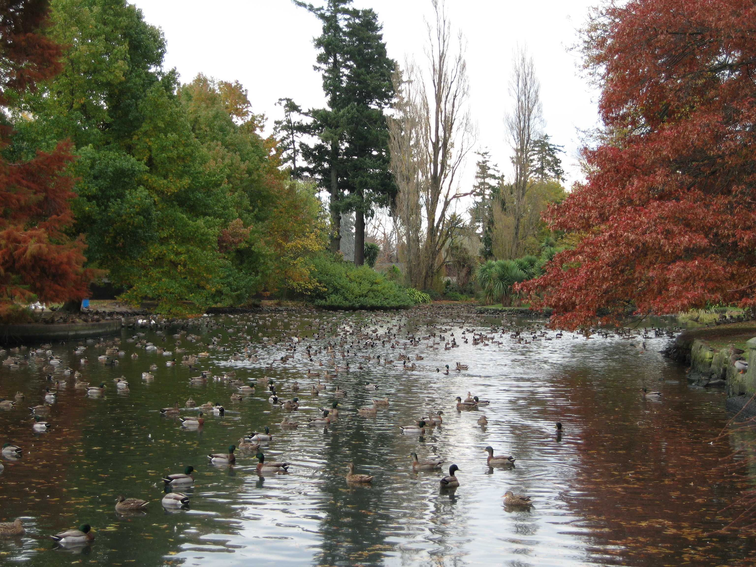 Ducks on pond, Ashburton Domain, Ashburton, NZ.